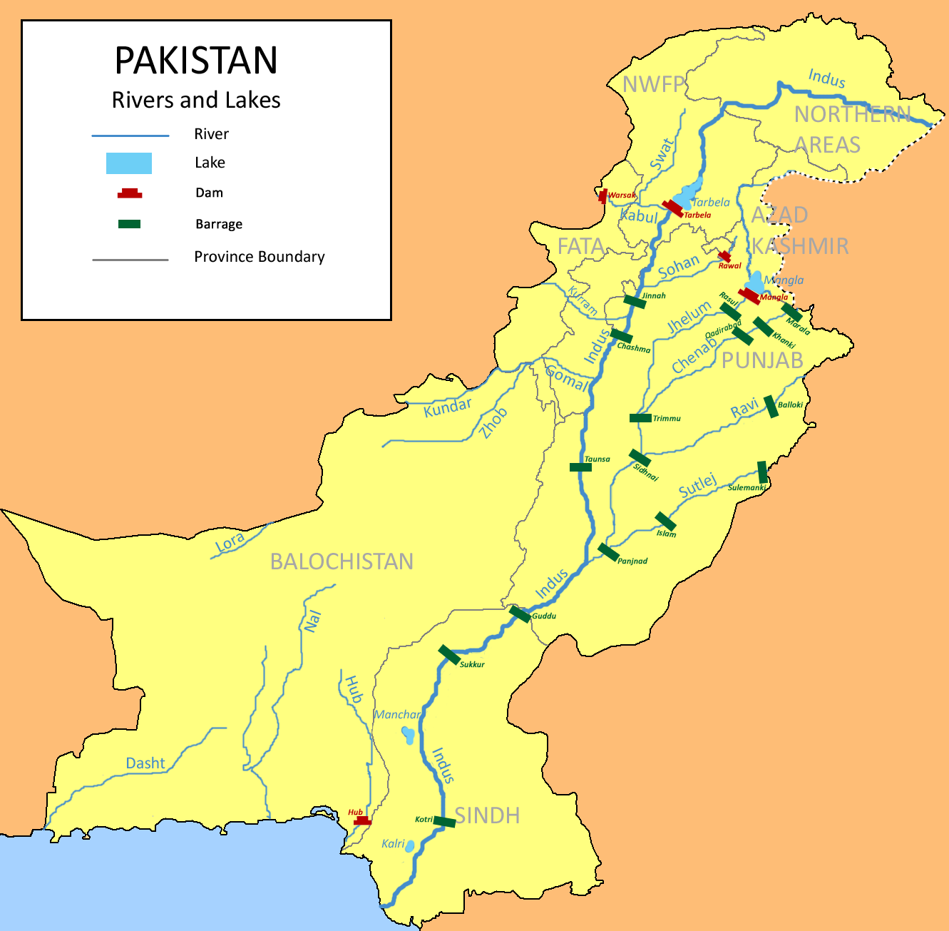 Major rivers and lakes of Pakistan. (Abbreviation used: 1. NWFP = North West Frontier Province, 2. FATA = Federally Administered Tribal Areas.)